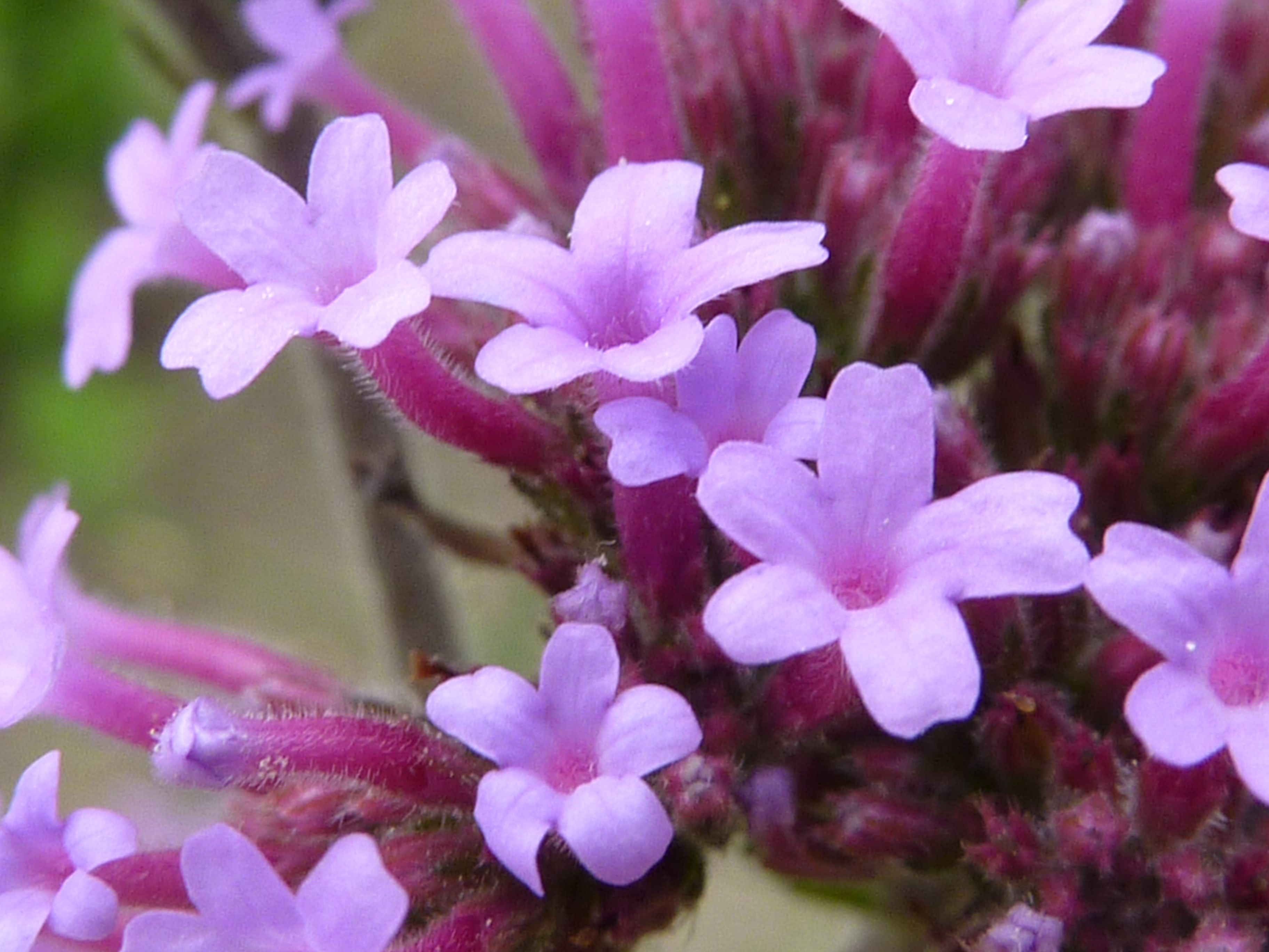 Taken in the Cambridge University Botanic Garden